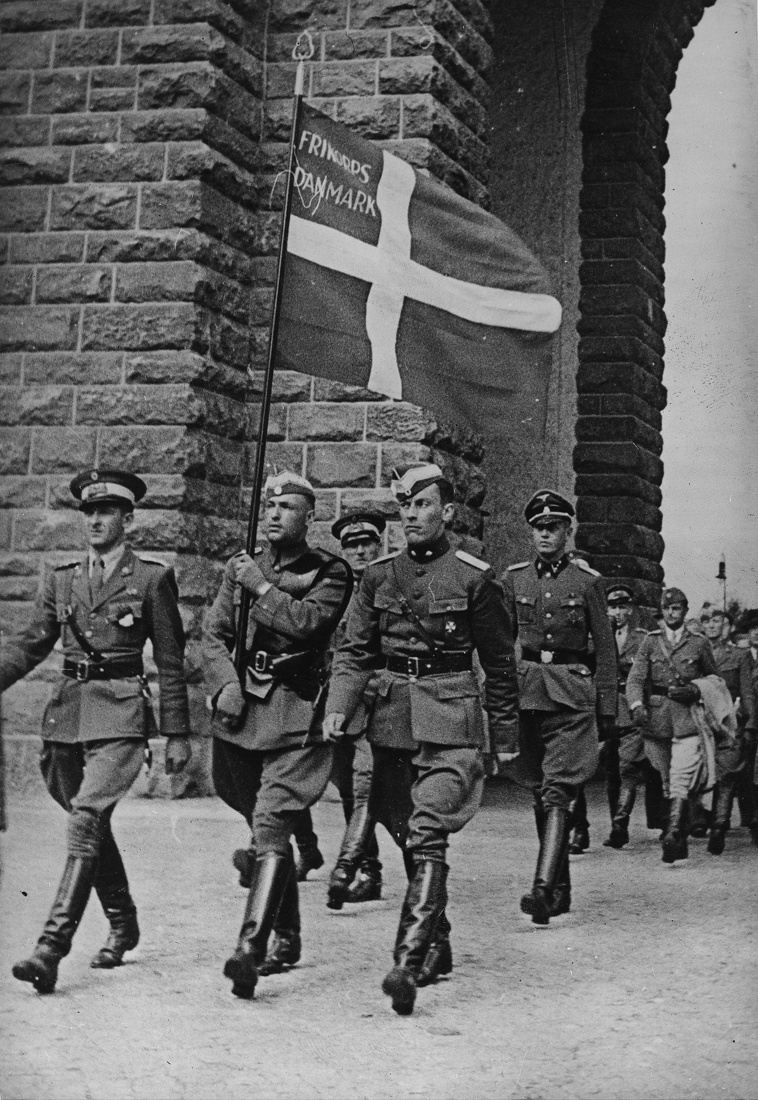 Free Corps Denmark marching in Germany with the unit's flag and commander Lieut. Colonel Christian Peder Kryssing.